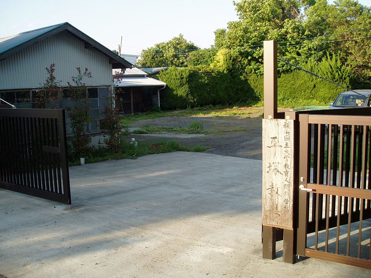 Entrance to Hiratsuka School Farm[1], Yokohama National University, located in Hiratsuka, Kanagawa, Japan.